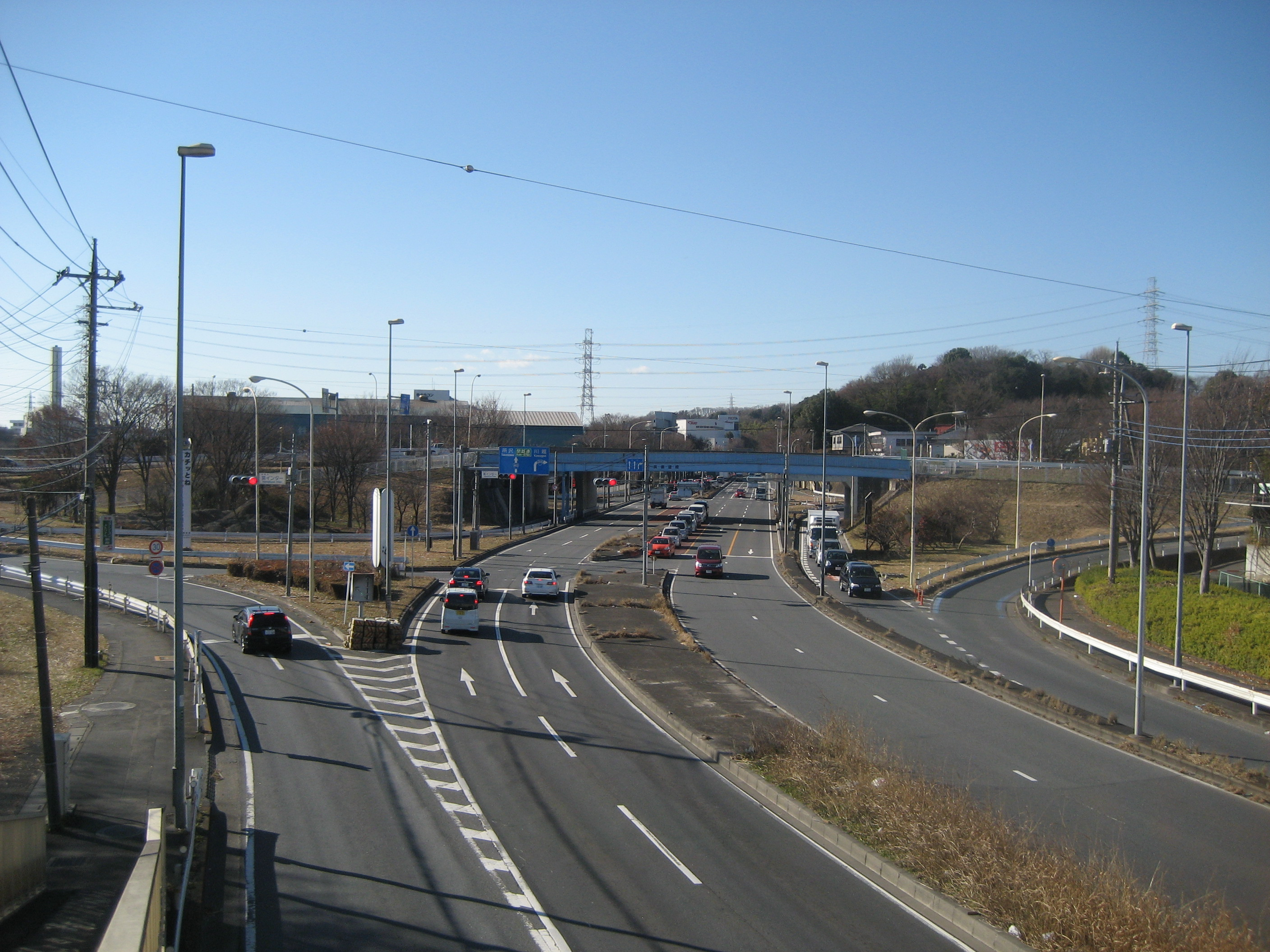 Hanabusa Inter Intersection on the Japanese National Route 463